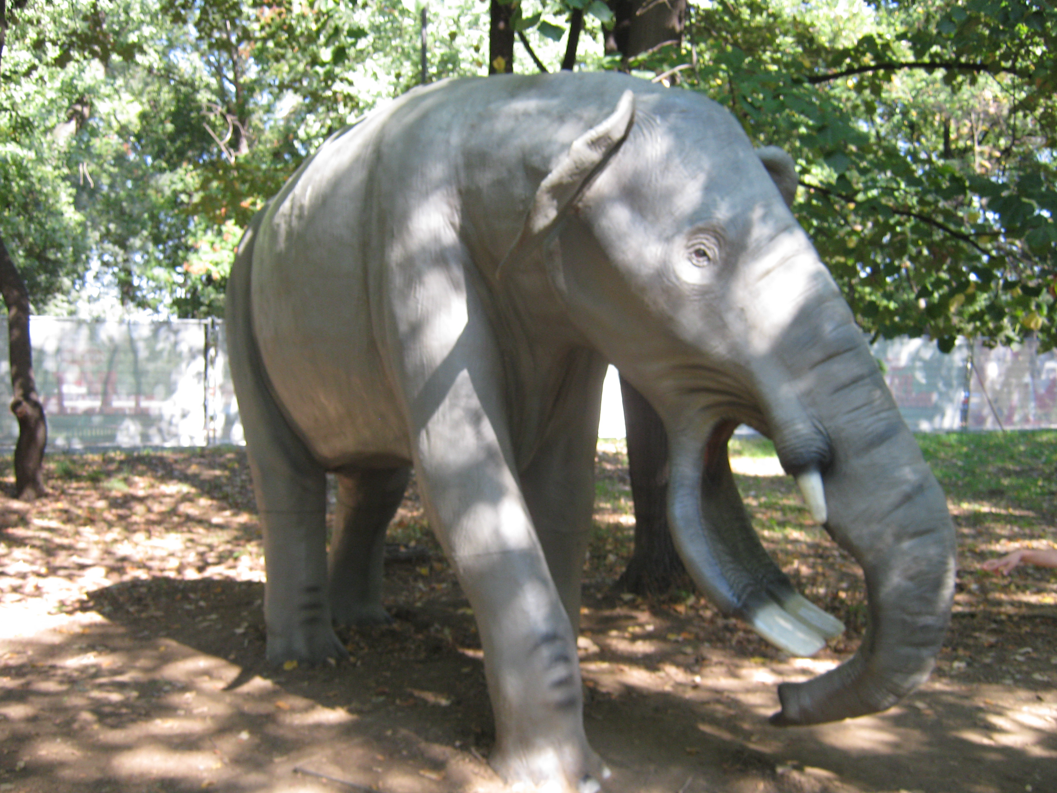 Platybelodon model